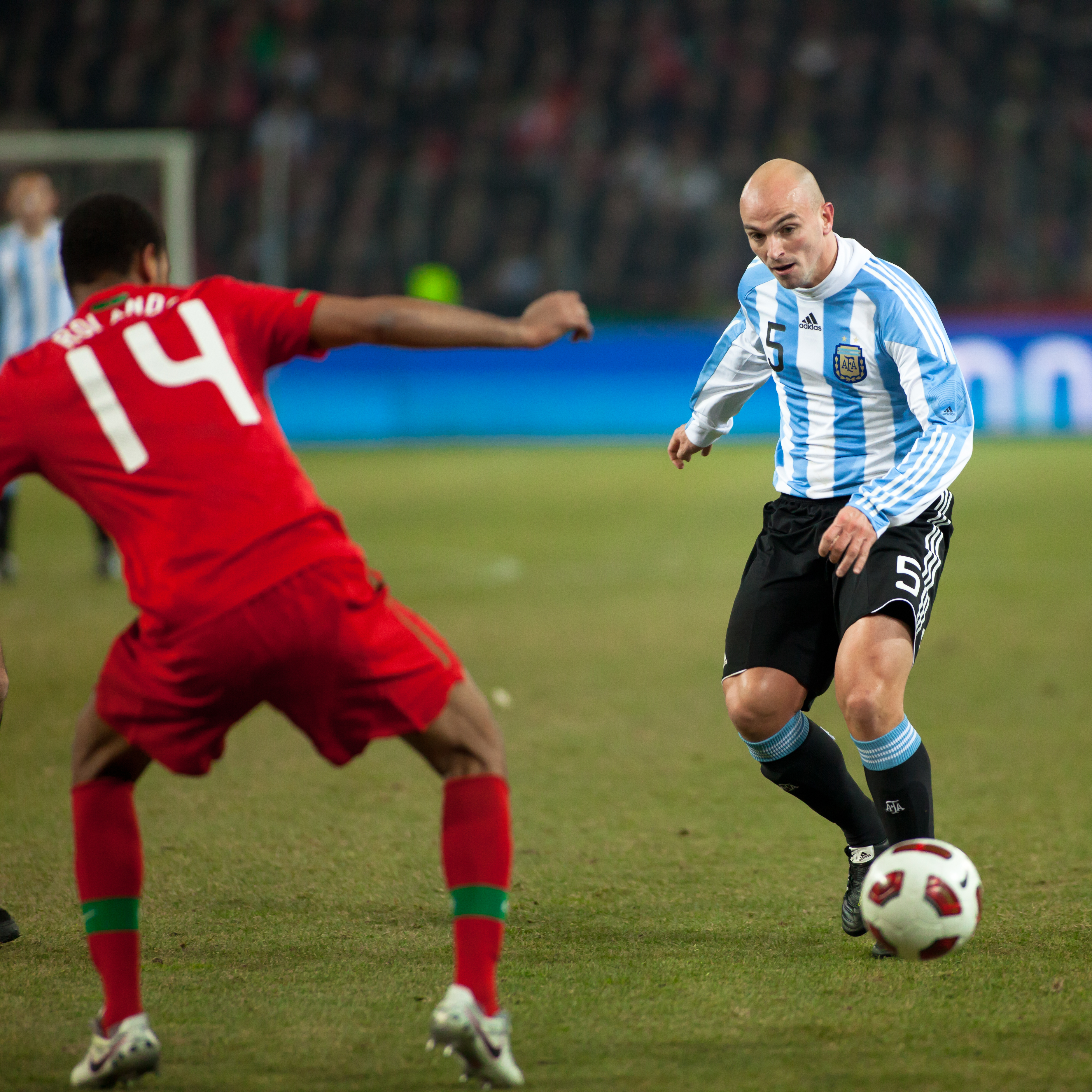 Esteban Cambiasso during the friendly match Argentina − Portugal at Geneva, Switzerland. Rolando (Portugal) on the left.